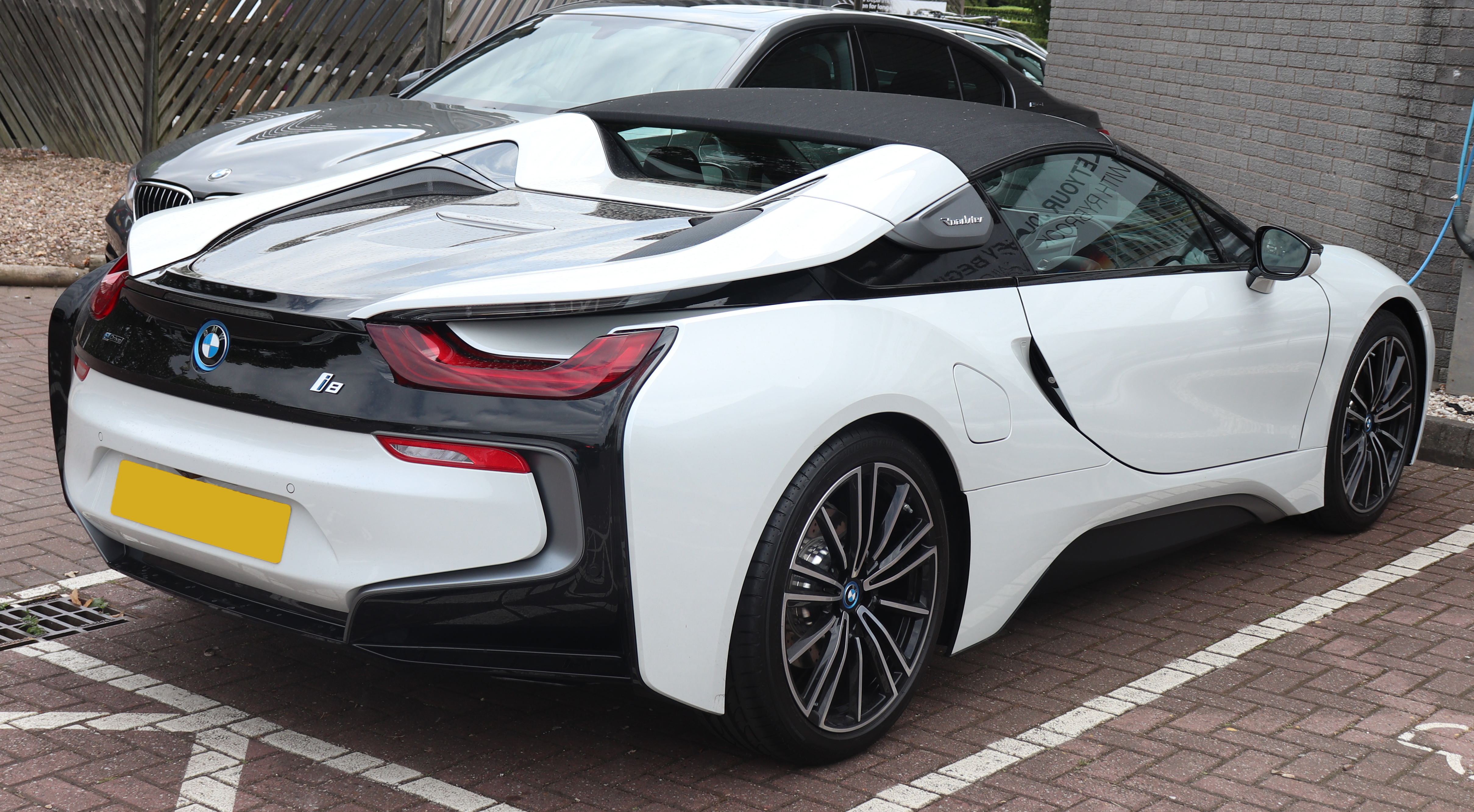 2018 BMW i8 Roadster Taken in Leamington Spa